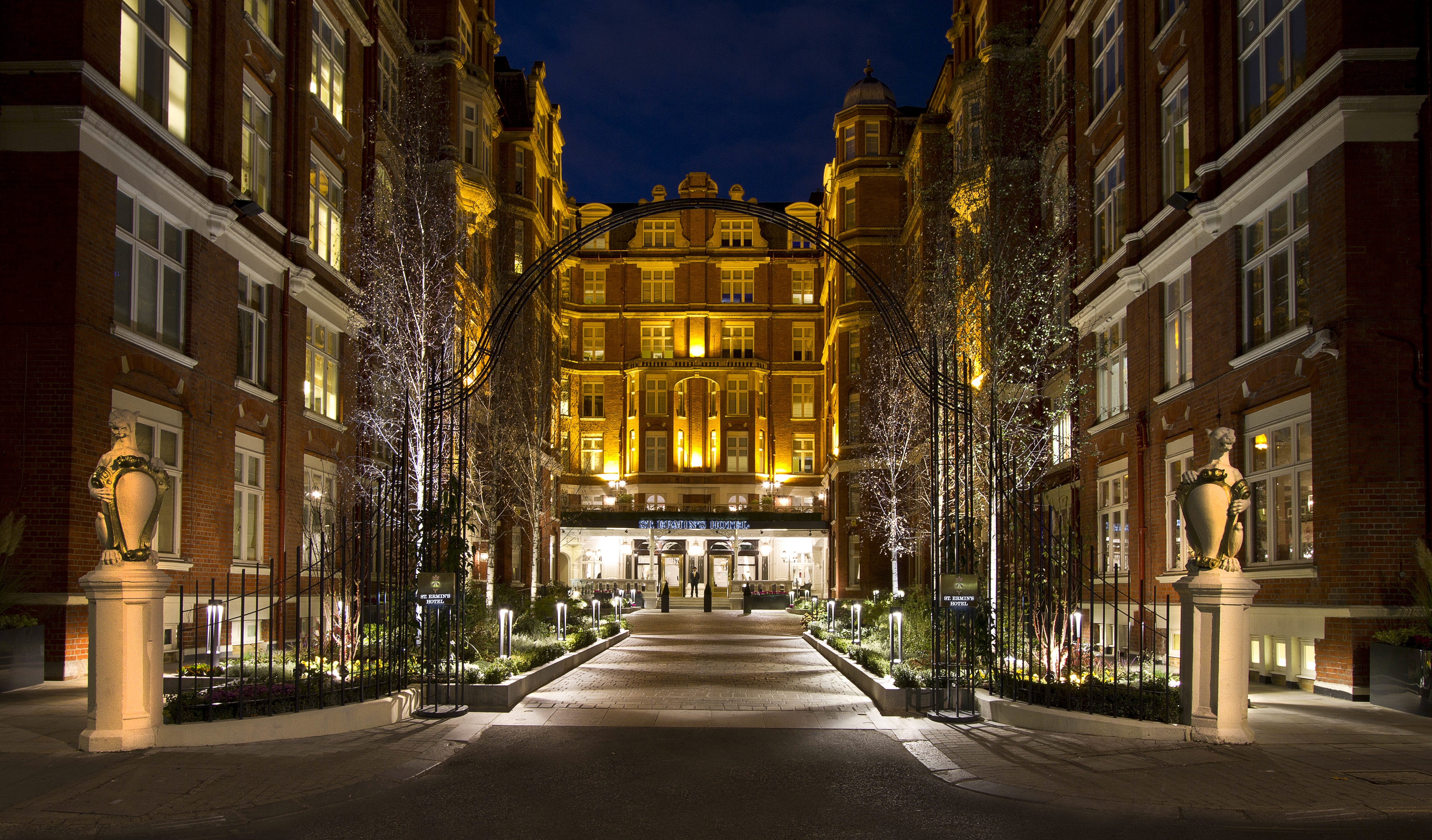 The newly restored, original garden courtyard entrance to the St Ermin's Hotel, St James's Park, London